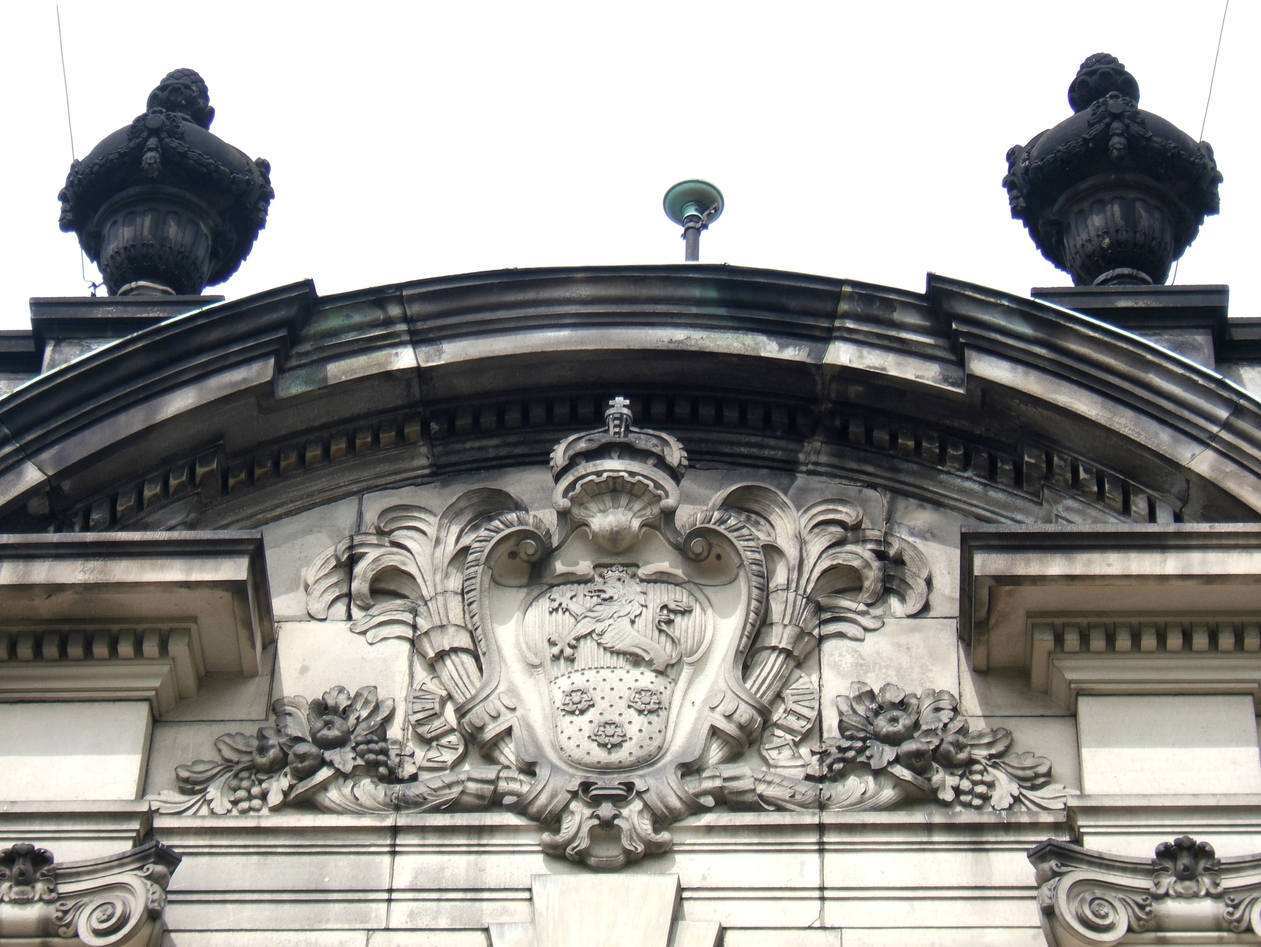 Coat of arms of the Donnersmarcks at the Palace in Świerklaniec (19th century)